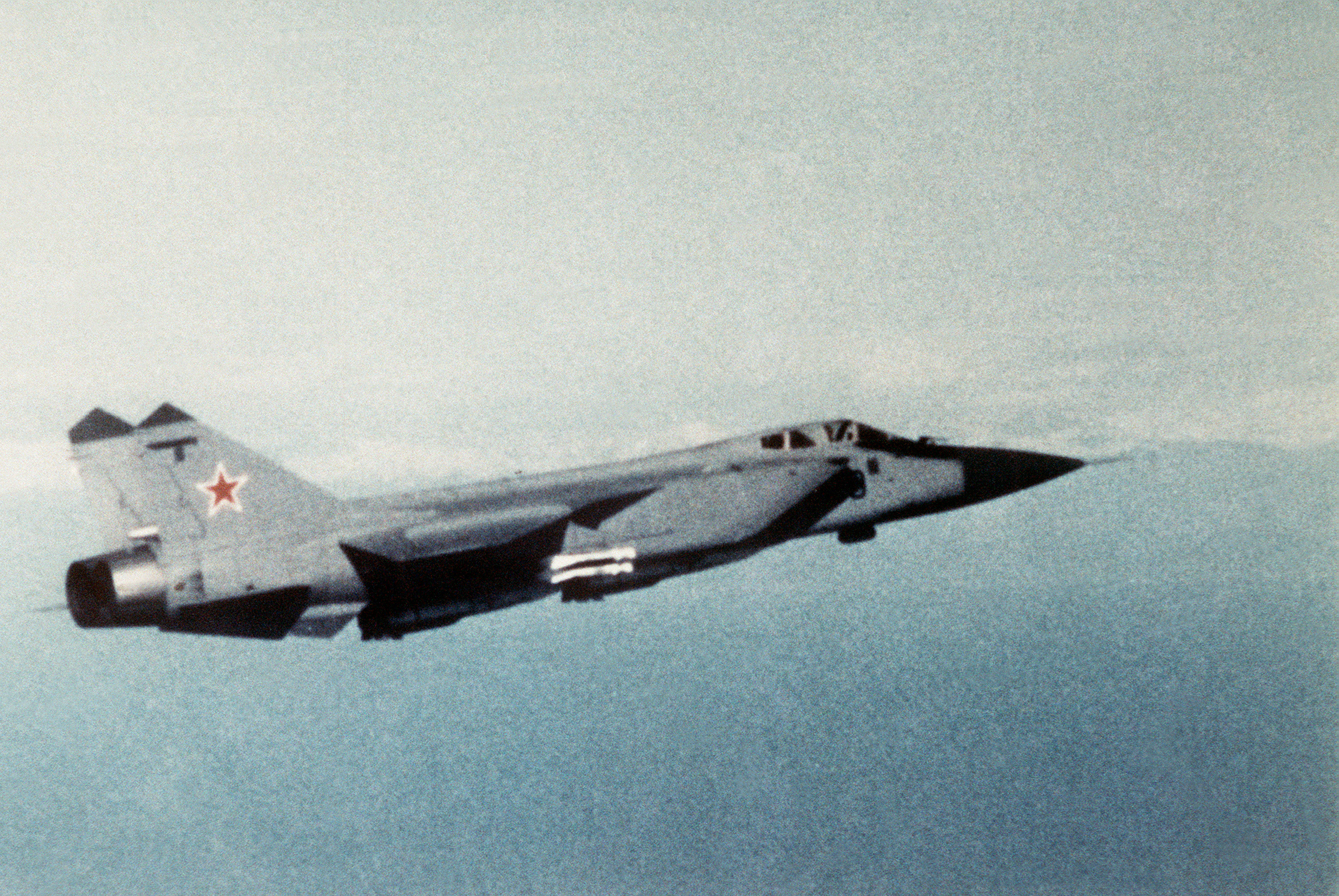 An air-to-air right side view of a Soviet MiG-31 Foxhound aircraft. Date Shot: 26 Aug 1988